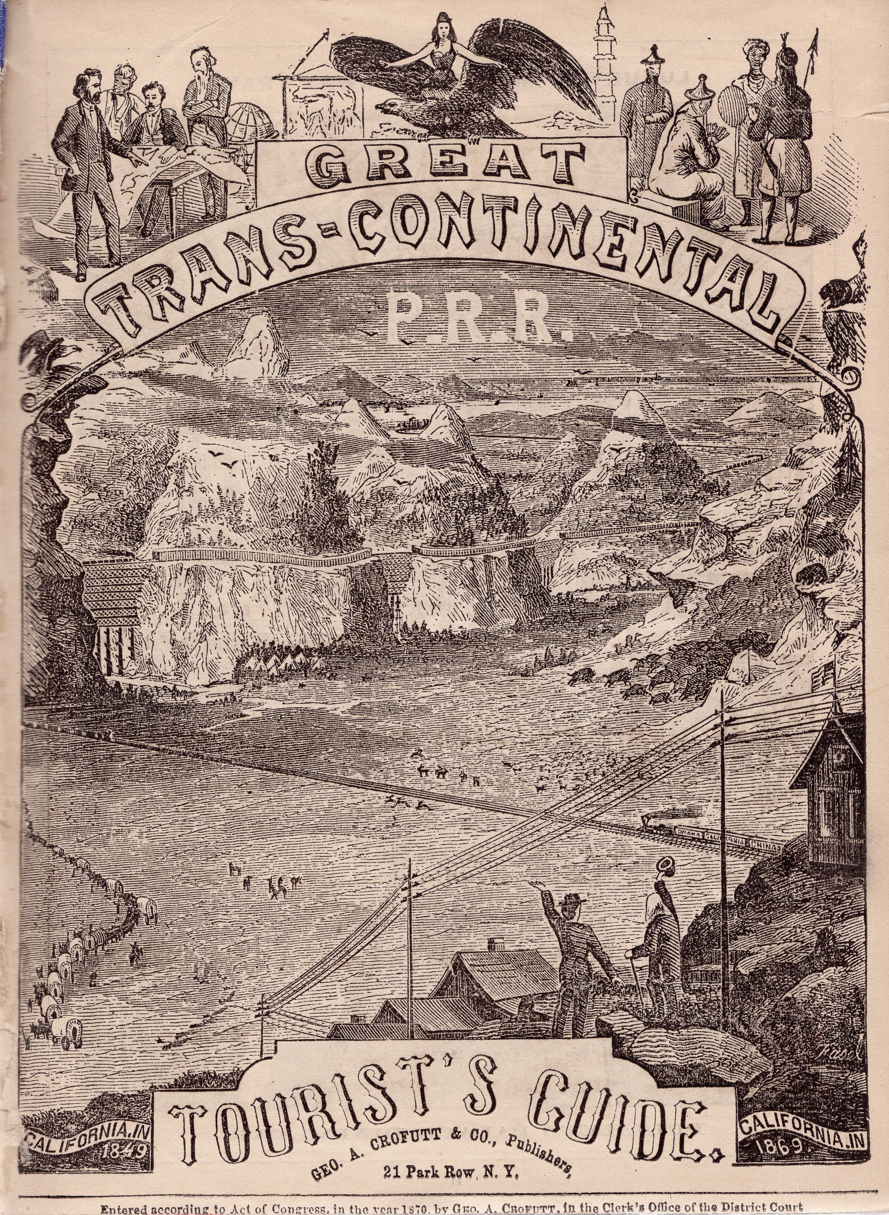 Frontispiece of George A. Crofutt's "Great Trans-Continental P.R.R. Tourist's Guide" 1870 THE GREAT TRANS-CONTINENTAL TOURIST'S GUIDE CONTAINING A FULL AND AUTHENTIC DESCRIPTION OF OVER FIVE HUNDRED CITIES, TOWNS, VILLAGES, STATIONS, GOVERNMENT FORTS AND CAMPS, MOUNTAINS, LAKES, BITERS, SULPHUR, SODA AND HOT SPRINGS, SCENERY, WATERING PLACES, SUMMER RESORTS; Where to look for and hunt the Buffalo, Antelope, Deer, and other game; Trout Fishing, etc., etc. In fact, to tell you what is worth seeing—where to see it—where to go—how to go—and whom to stop with while passing over the UNION PACIFIC RAILROAD, CENTRAL PACIFIC RAILROAD OF CAL, Their Branches and Connections by Stage and Water, FROM THE ATLANTIC TO THE PACIFIC OCEAN. ILLUSTRATED. Entered according to Act of Congress, in the year 1870, by Geo. A. Crofutt, in the Clerk'sOffice of the District Court of the United States for the Southern District of New York. AMERICAN NEWS CO. WHOLESALE AGENTS. GEO. A. CROFUTT & CO., PUBLISHERS No. 31 PARK ROW, NEW YORK